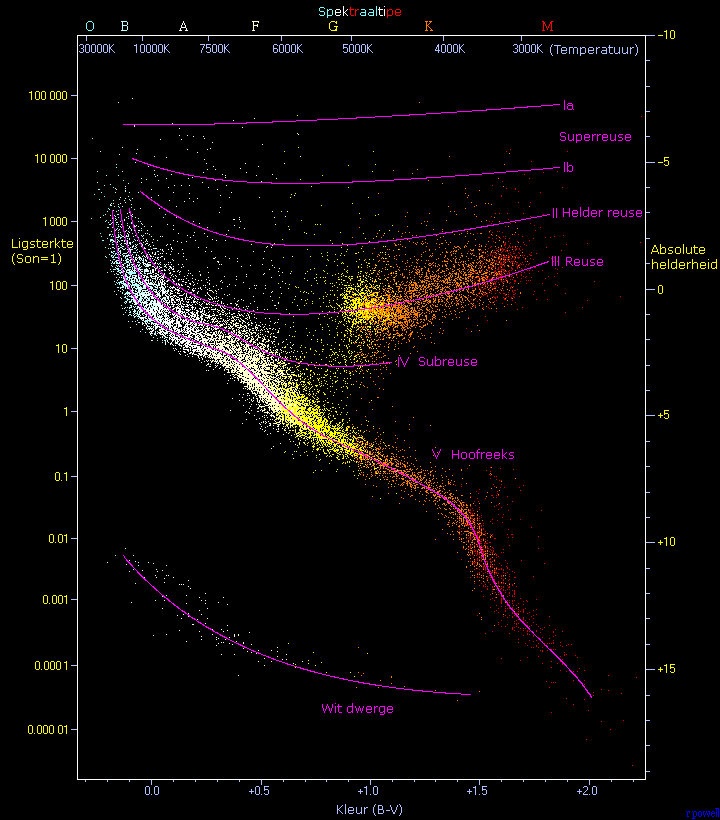 Hertzsprung-Russell diagram. A plot of luminosity (absolute magnitude) against the colour of the stars ranging from the high-temperature blue-white stars on the left side of the diagram to the low temperature red stars on the right side. "This diagram below is a plot of 22000 stars from the Hipparcos Catalogue together with 1000 low-luminosity stars (red and white dwarfs) from the Gliese Catalogue of Nearby Stars. The ordinary hydrogen-burning dwarf stars like the Sun are found in a band running from top-left to bottom-right called the Main Sequence. Giant stars form their own clump on the upper-right side of the diagram. Above them lie the much rarer bright giants and supergiants. At the lower-left is the band of white dwarfs - these are the dead cores of old stars which have no internal energy source and over billions of years slowly cool down towards the bottom-right of the diagram." Converted to png and compressed with pngcrush.